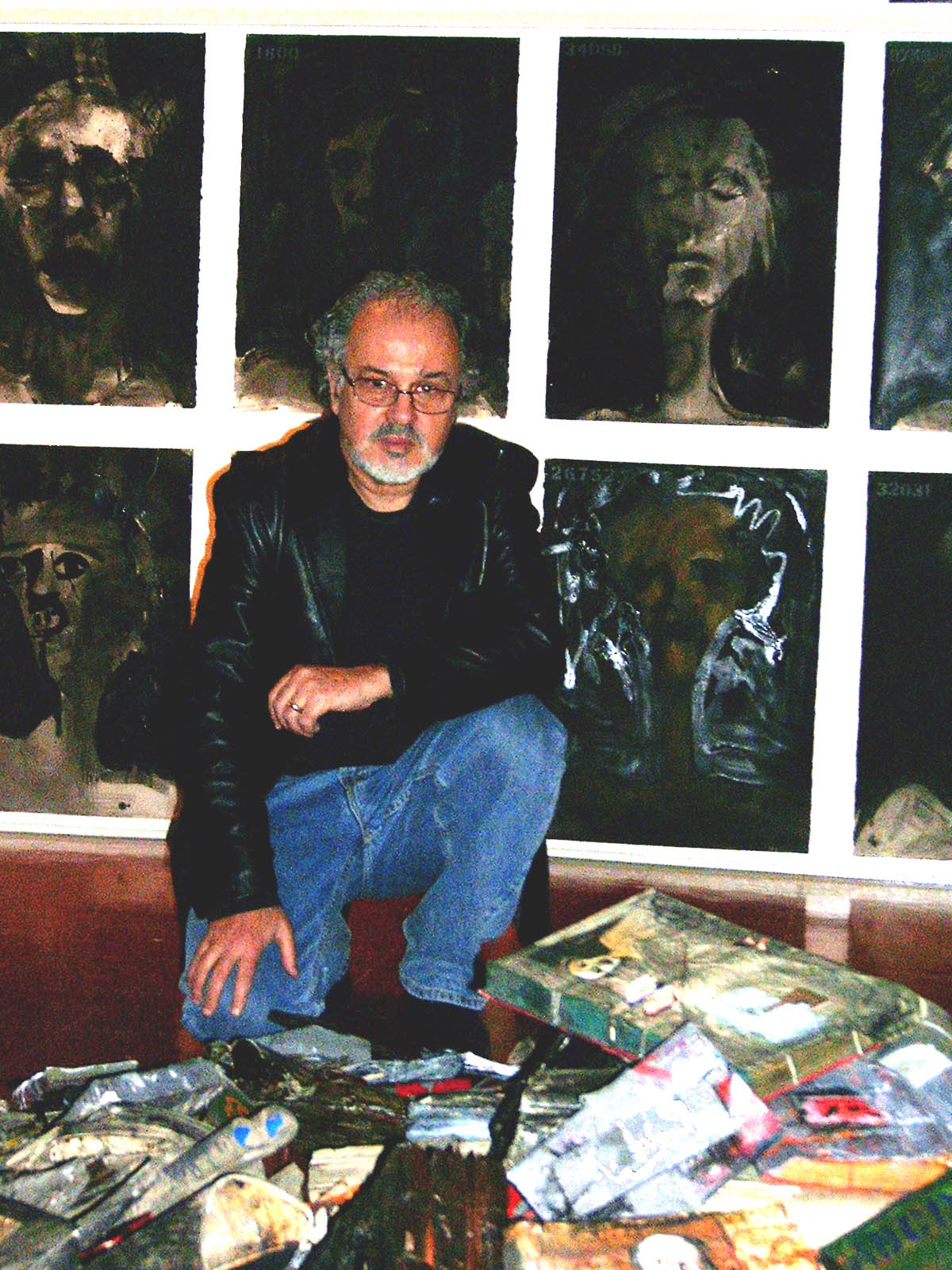 Chaki in front of his Mi Makir exhibit